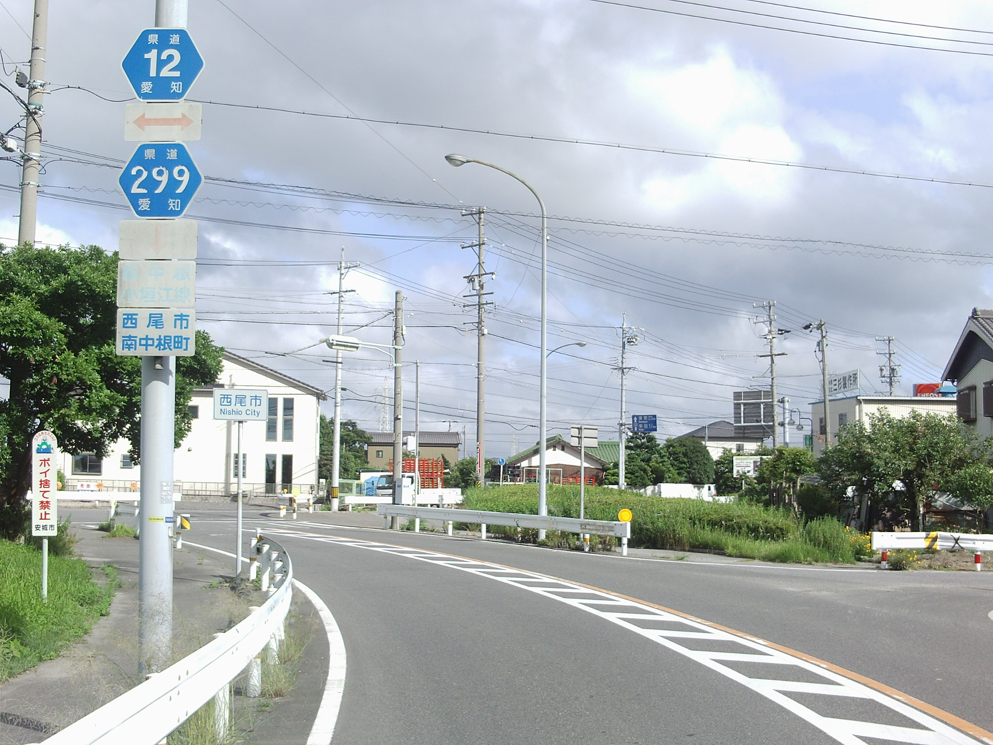 Aichi prefectural road No.299 in Minaminakanecho, Nishio, Aichi.